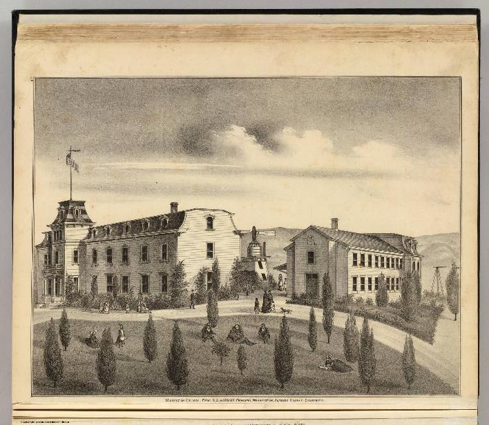 "Washington College, Prof. S.S. Harmon, Principal, Washington, Alameda County, California." Lithographed title page to Official and historical atlas map of Alameda County, California. Compiled, drawn and published from personal examinations and surveys by Thompson & West. Oakland, Cala. 1878.